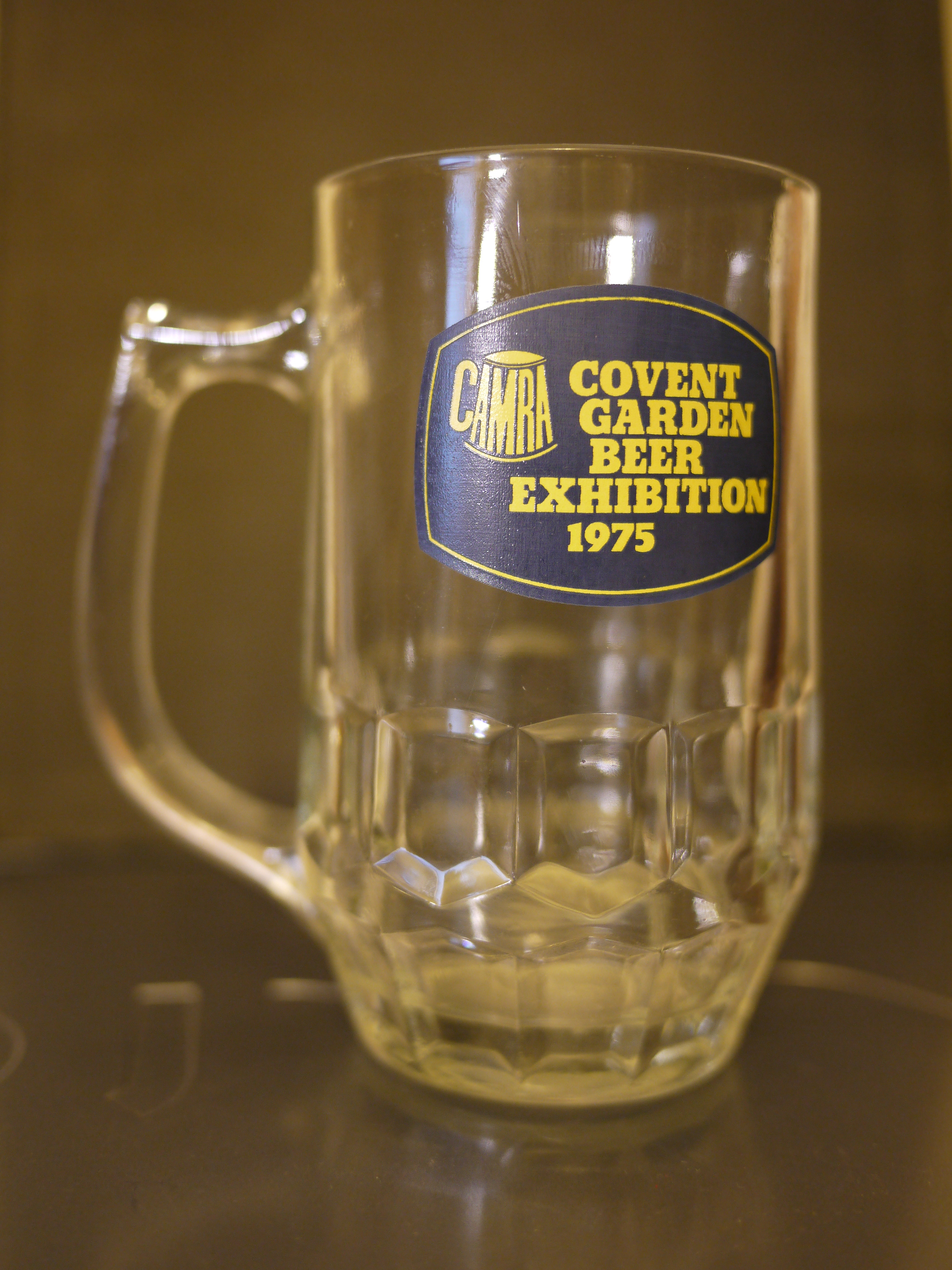 1975 9th-13th September- First National CAMRA Beer Festival held at Covent Garden, London. The half-pint glass "Ravenhead Barmasters - Made in England" was both entry ticket and sampling glass in one.